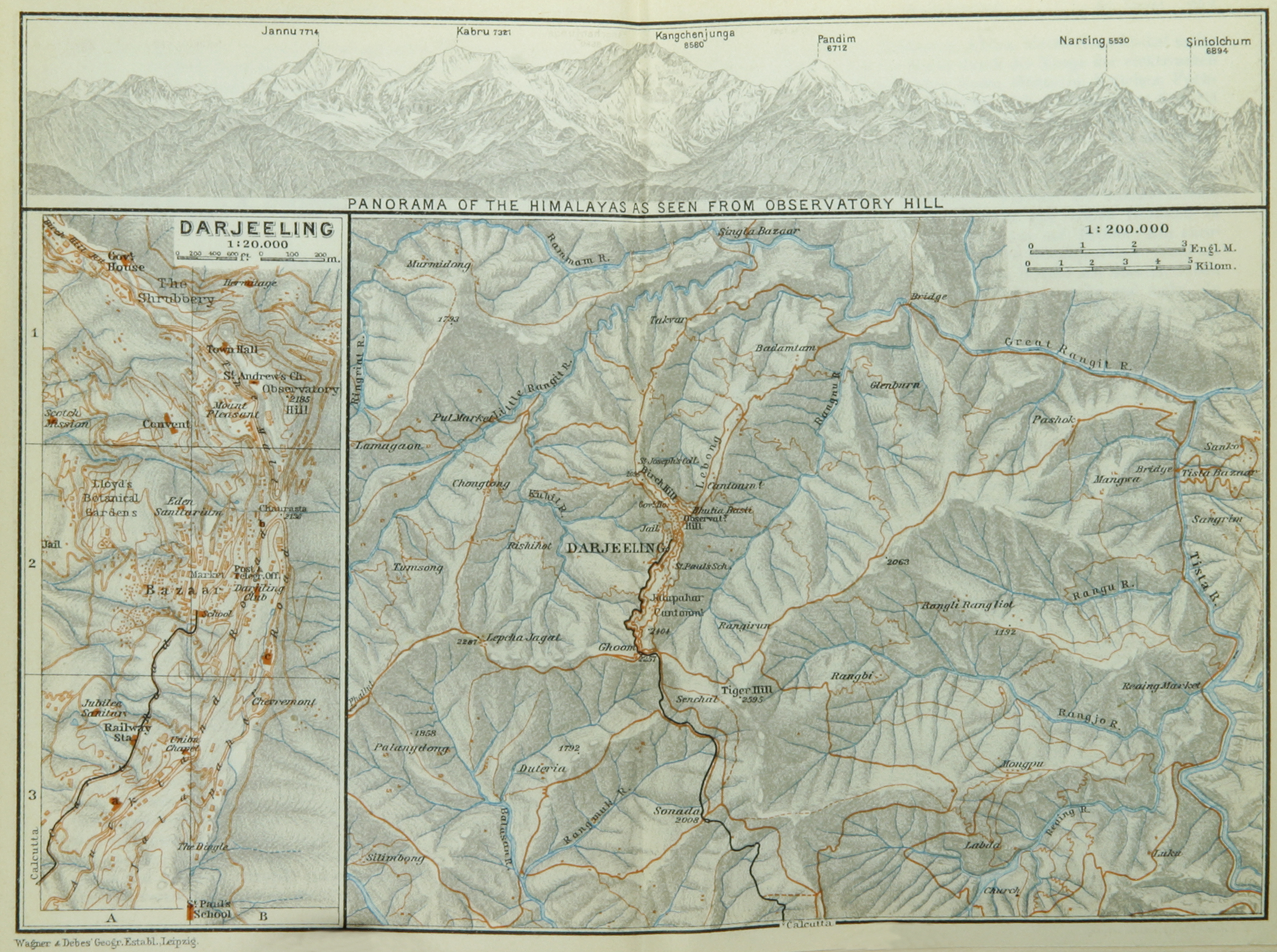 Combined map of the hill station Darjeeling (1:20,000) and its environs (1:200,000), ca 1914, featuring a panorama of the Himalaya as seen from nearby Observatory Hill. Labelled in English